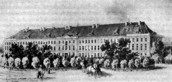 Charite clinic, 1850